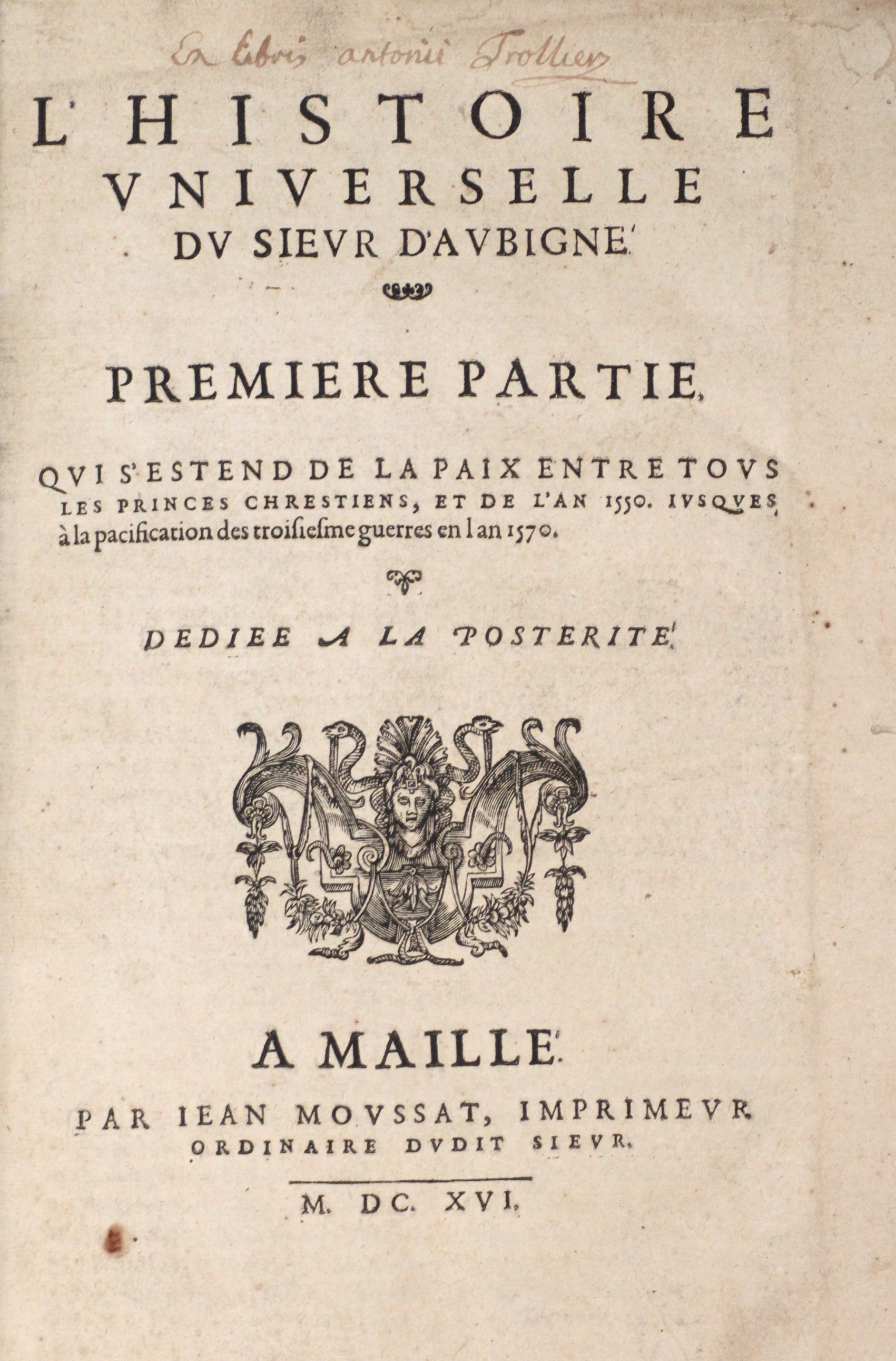 Histoire Universelle by Agrippa d'Aubigné